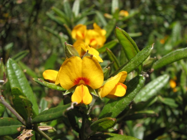 Podolobium alpestre Baw Baw National Park, Victoria, Australia GRIN link : Podolobium alpestre (F. Muell.) Crisp & Weston NCBI link: Podolobium alpestre The Plant List link: Podolobium alpestre (F.Muell.) Crisp & P.H.Weston Considered a synonym (Source: KewGarden WCSP)